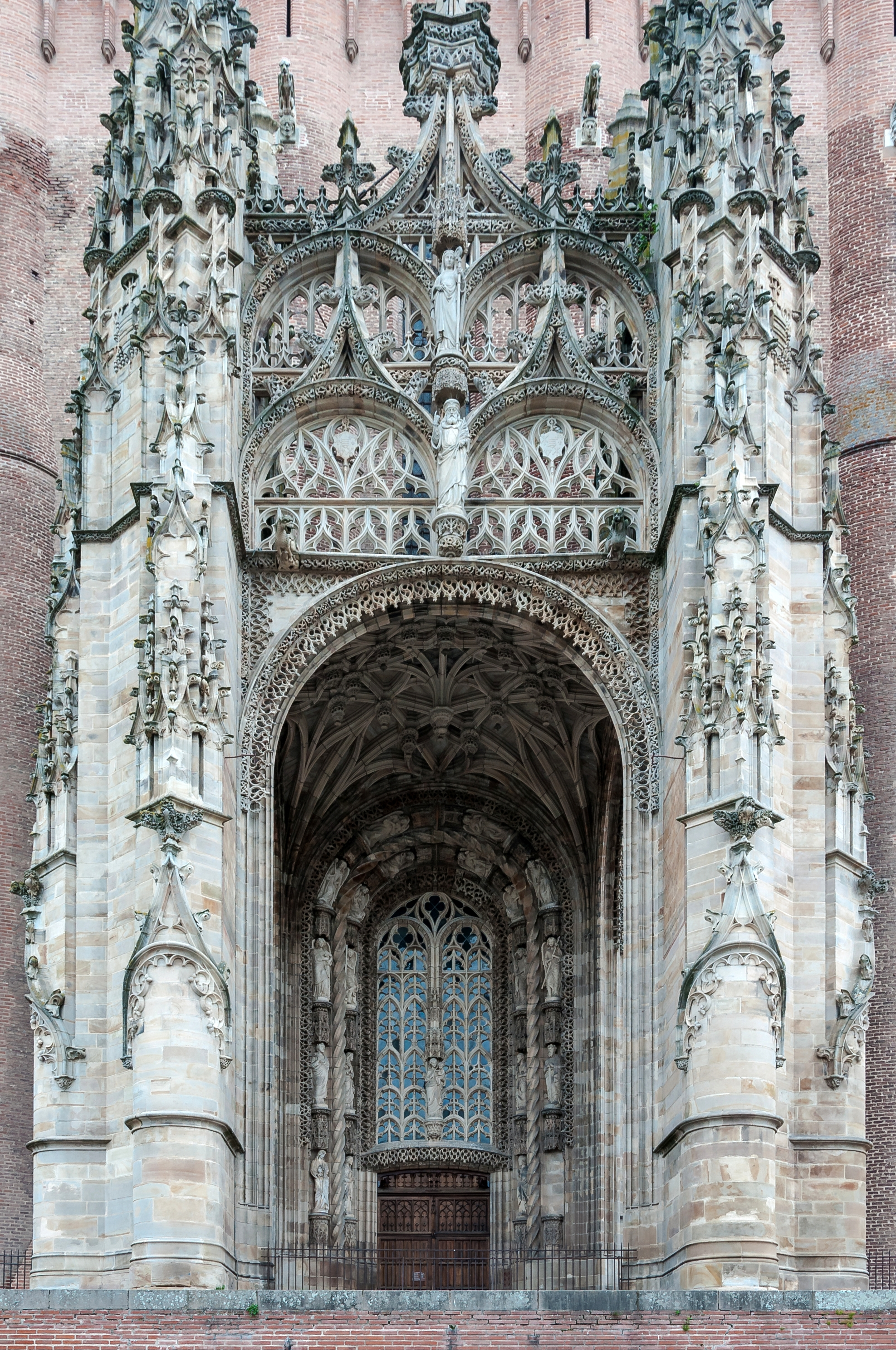 Albi cathedral is one of the largest brick churches in the world. Erection started in 1282 and was finished in 1383. The inauguration took place in 1492. The south portal with a ribbed vault was erected at the begin of the 15th century.